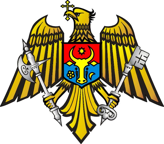 a golden eagle with a shield on its chest